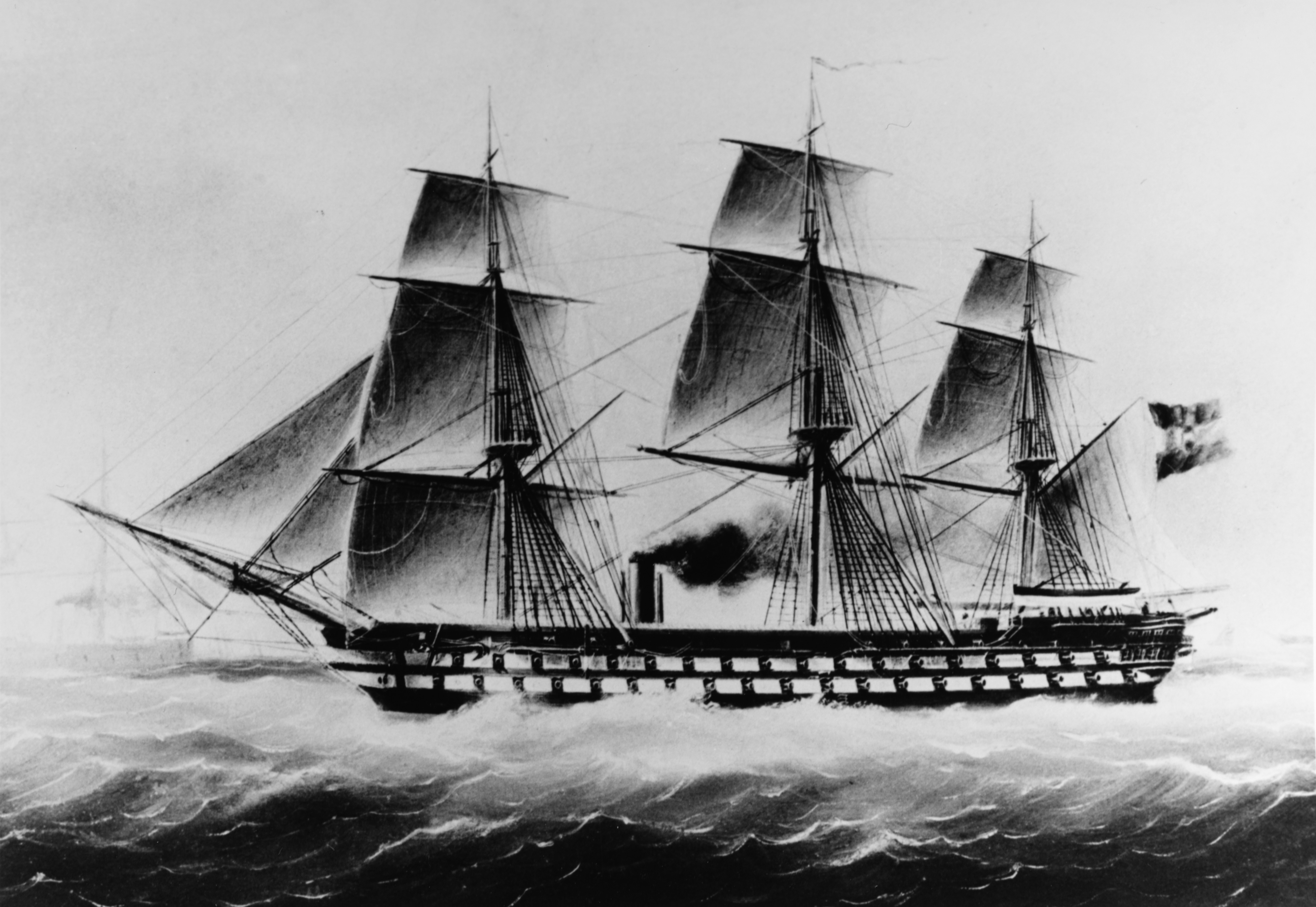 The SMS Kaiser in its original configuration. In the background what appears to be a Habsburg class ironclad. Image cropped by uploader.